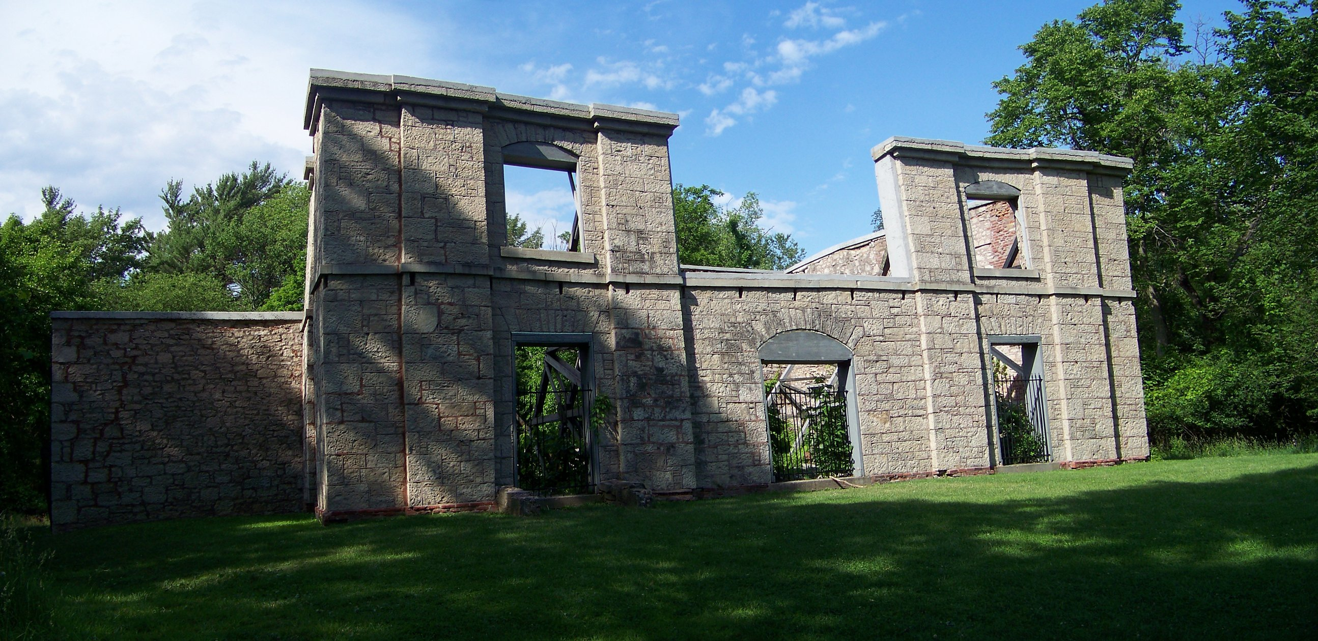 Ruins of the Hermitage at the Dundas Valley Conservation Area.